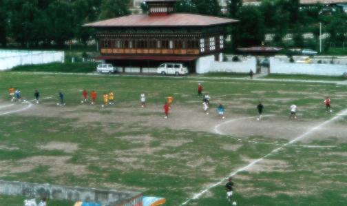 Soccerfield in Thimpu, Bhutan. Known from the documentary "The other final"